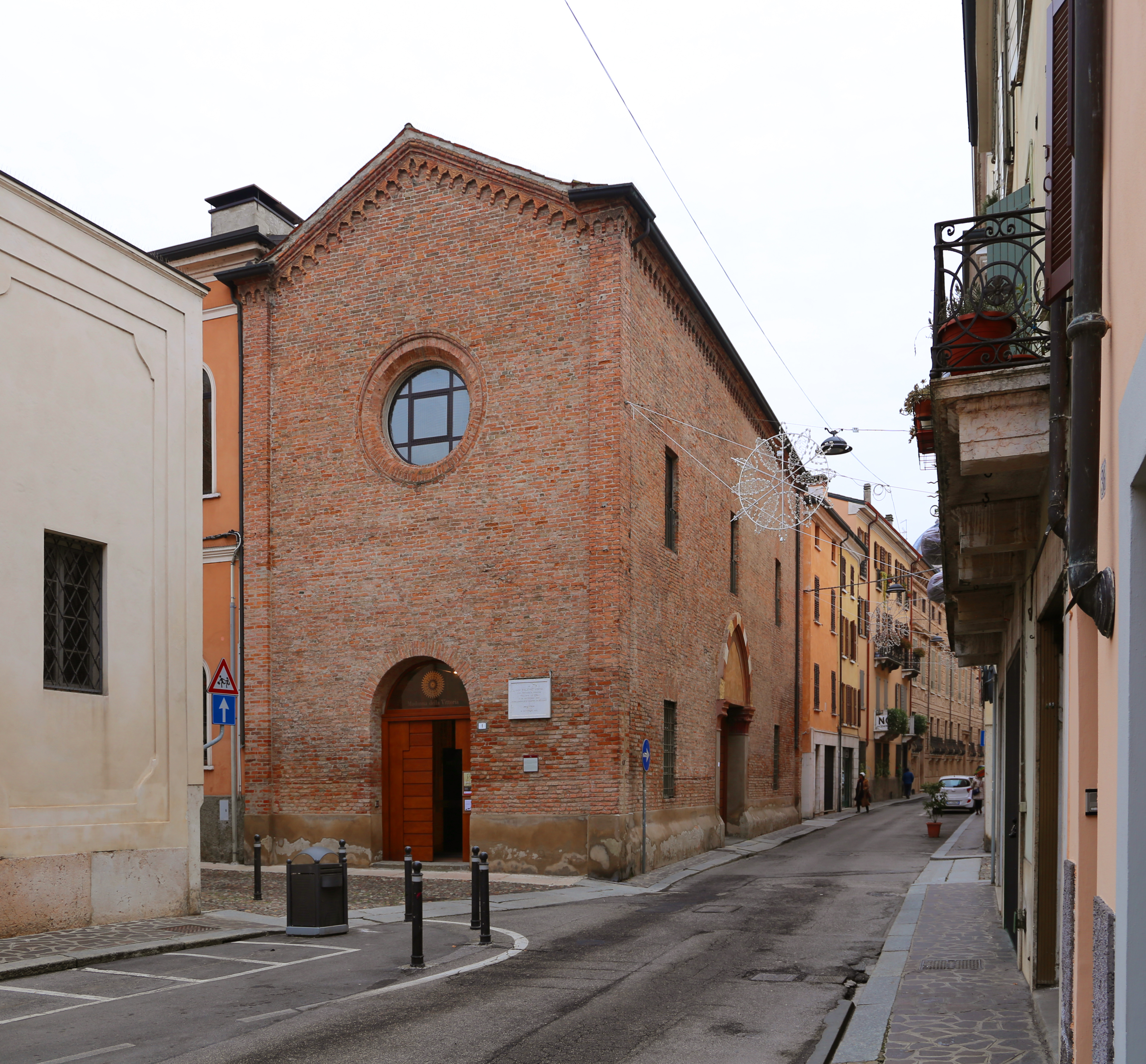 Churches in Mantua